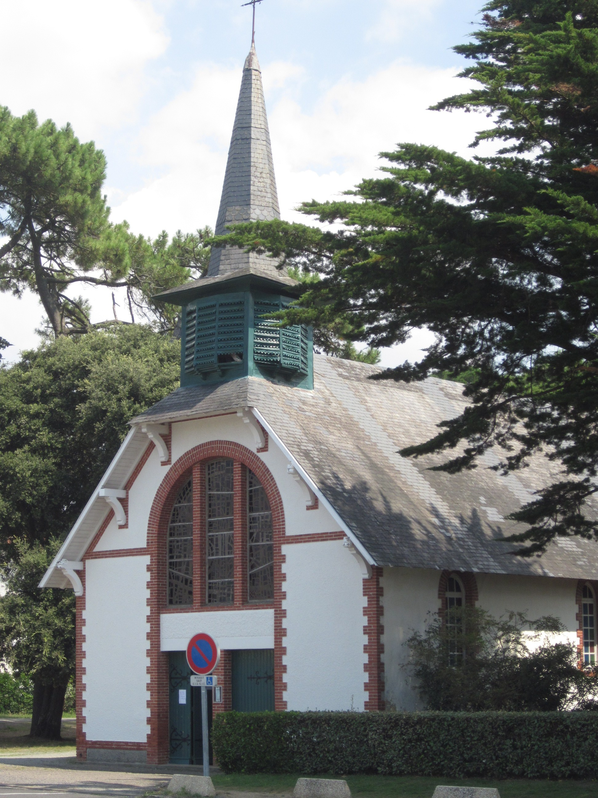 Chapel of Saint Anne, Tharon-Plage (Saint-Michel-Chef-Chef) Loire Atlantique, France (1908)